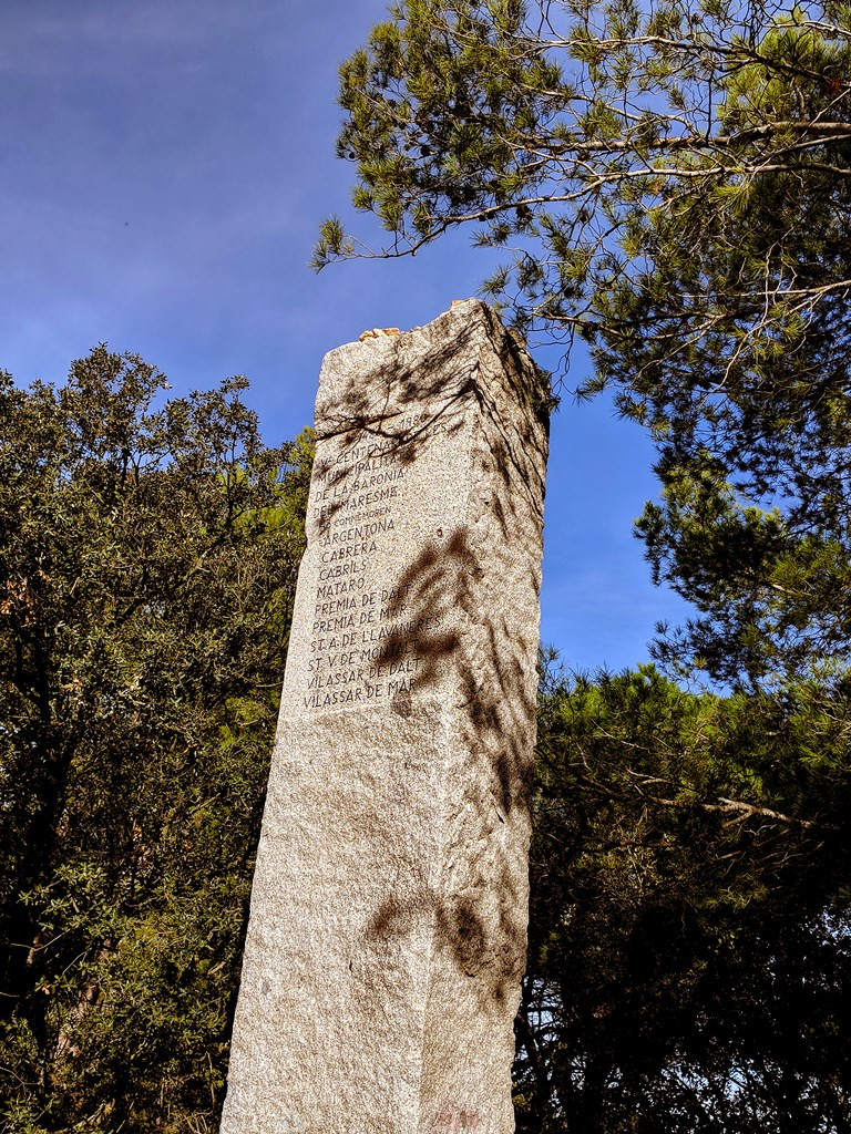 Monólit del coll de Burriac